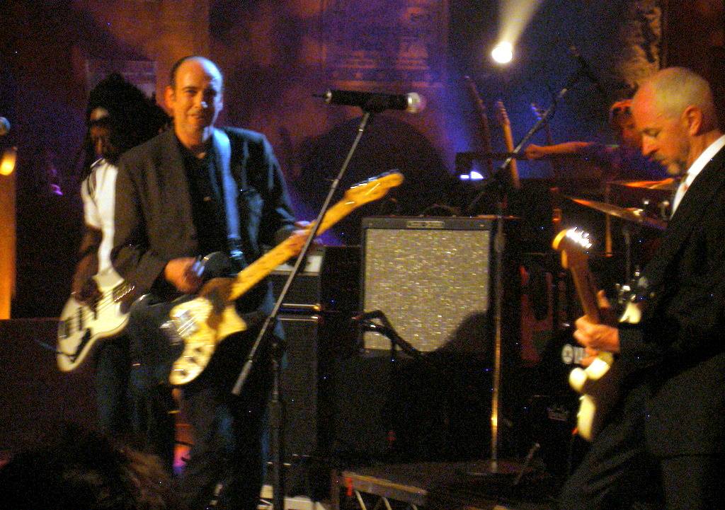 Lone Star Lounge, 3-15-08